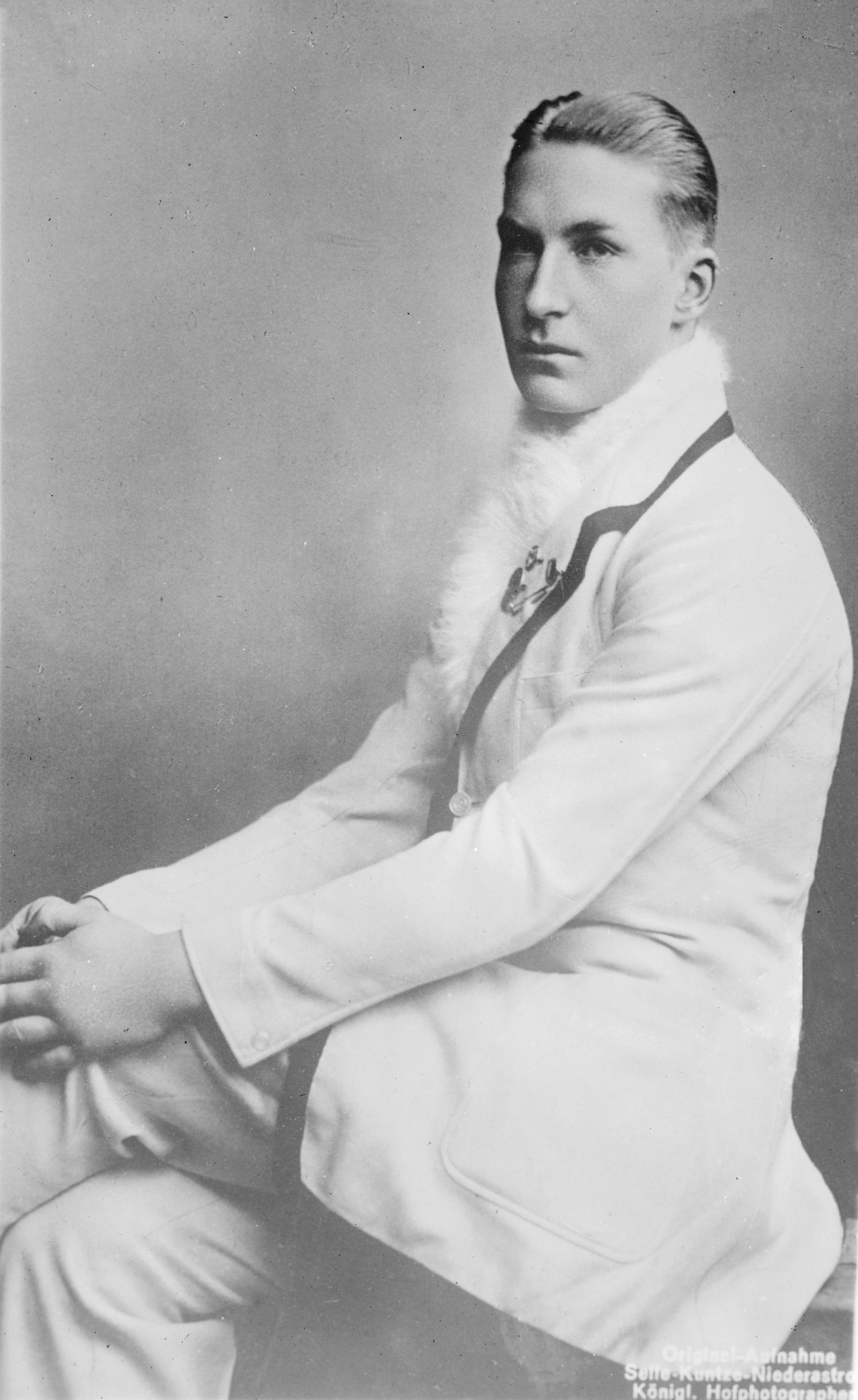 Prince Friedrich Karl of Prussia (1893–1917)